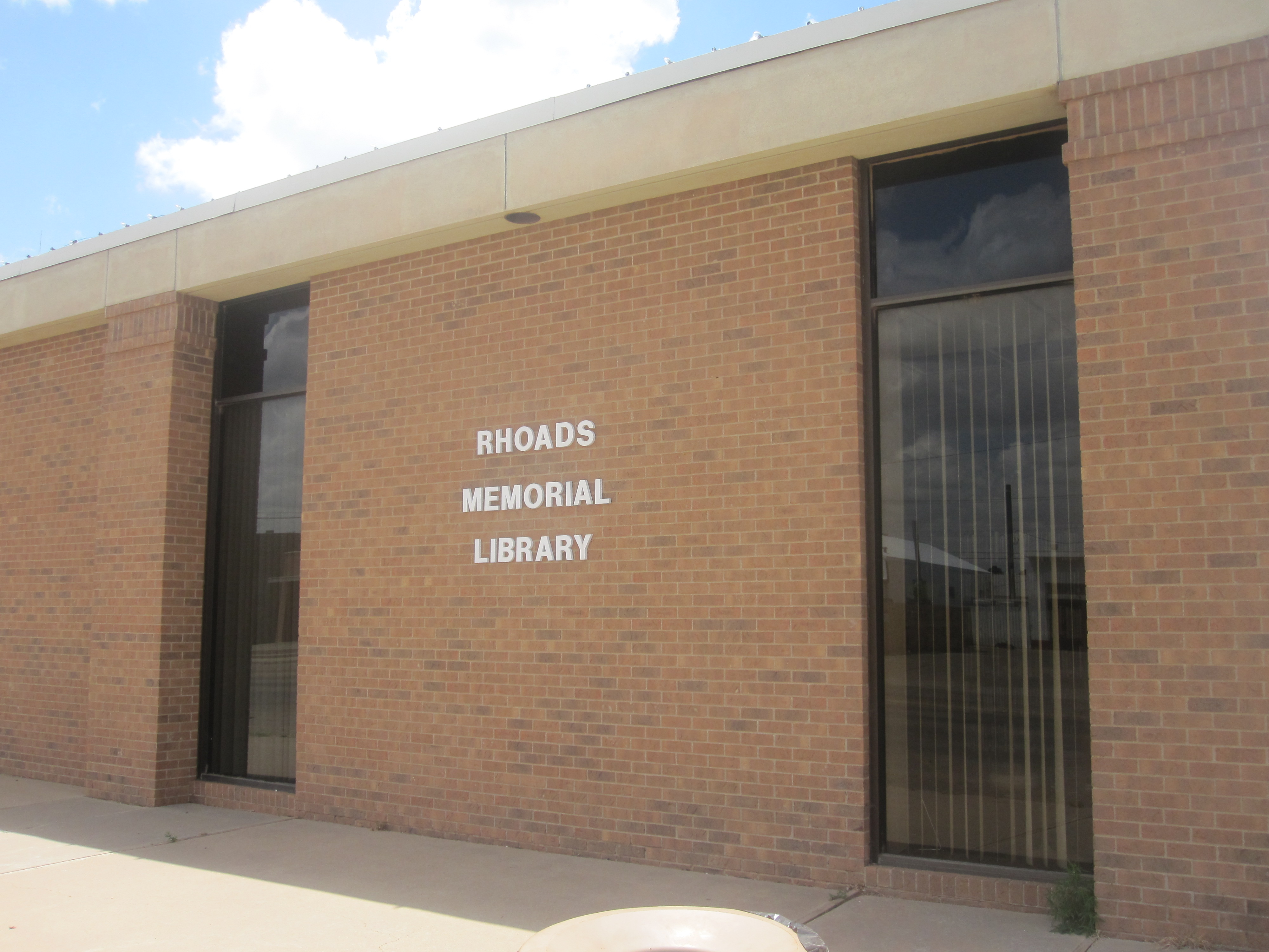 I took photo with Canon camera in Dimmitt, TX.